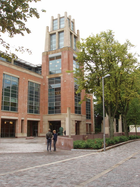 New Library, Queen's University, Belfast The library had just started to be used when the photo was taken.